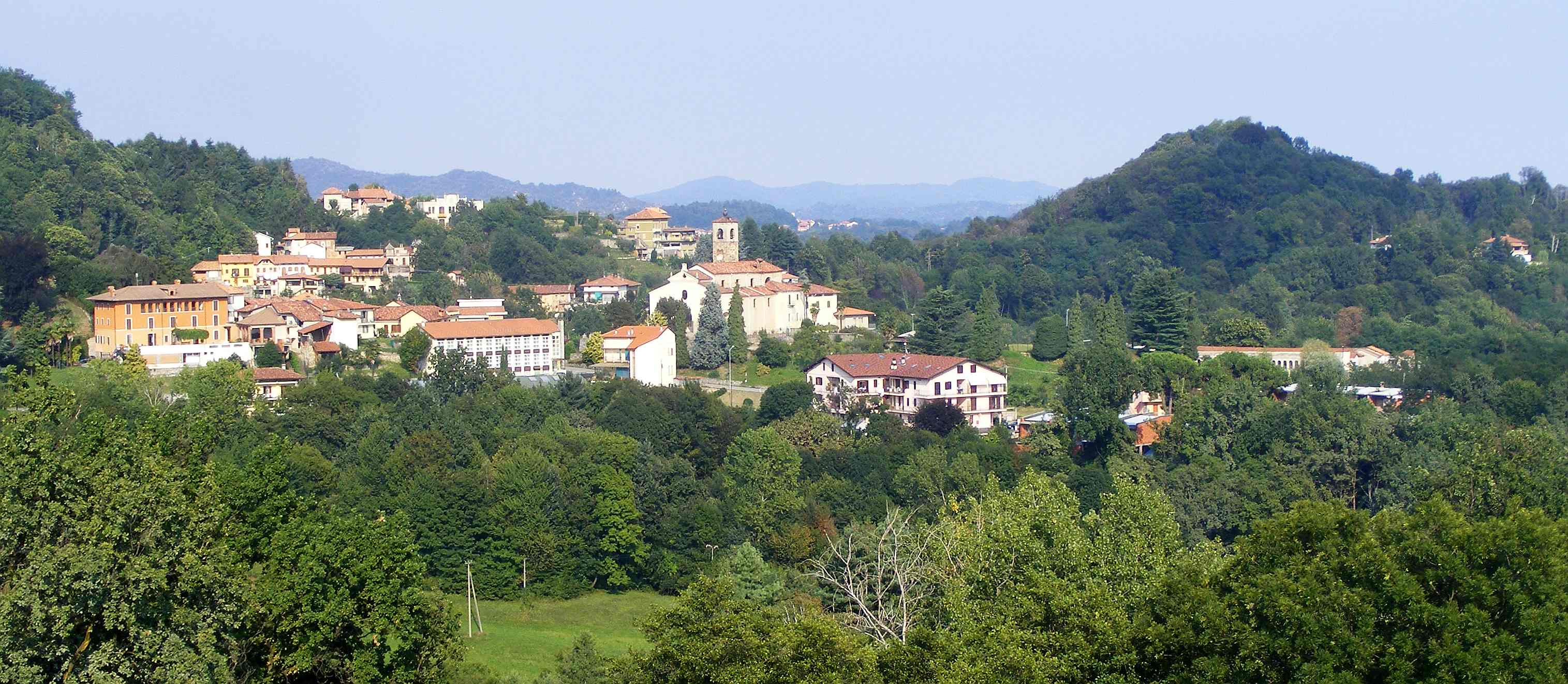 Valle San Nicolao (BI, Italy): panorama from Bioglio